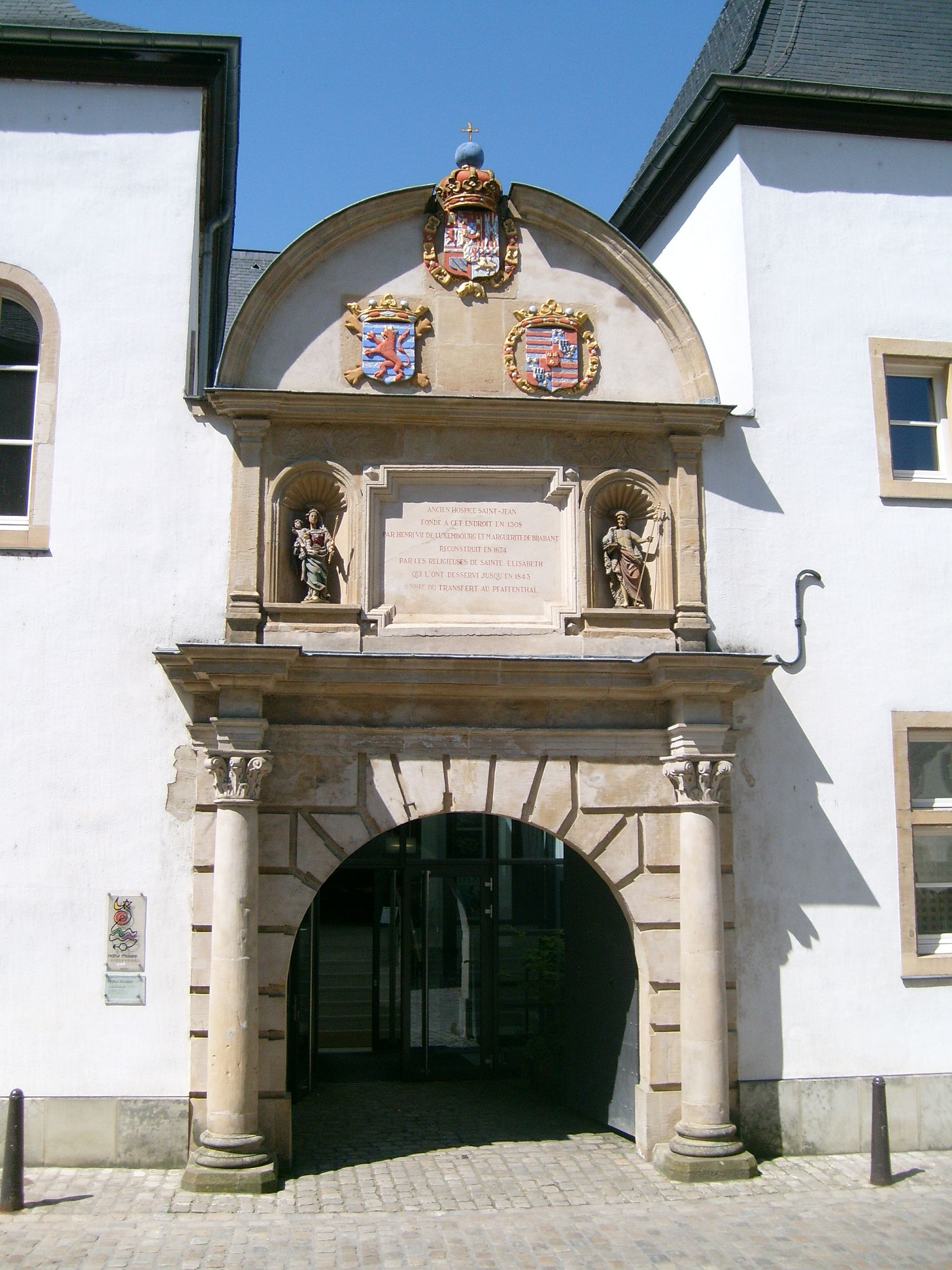 Entrance of the National Museum of Natural History, Luxembourg